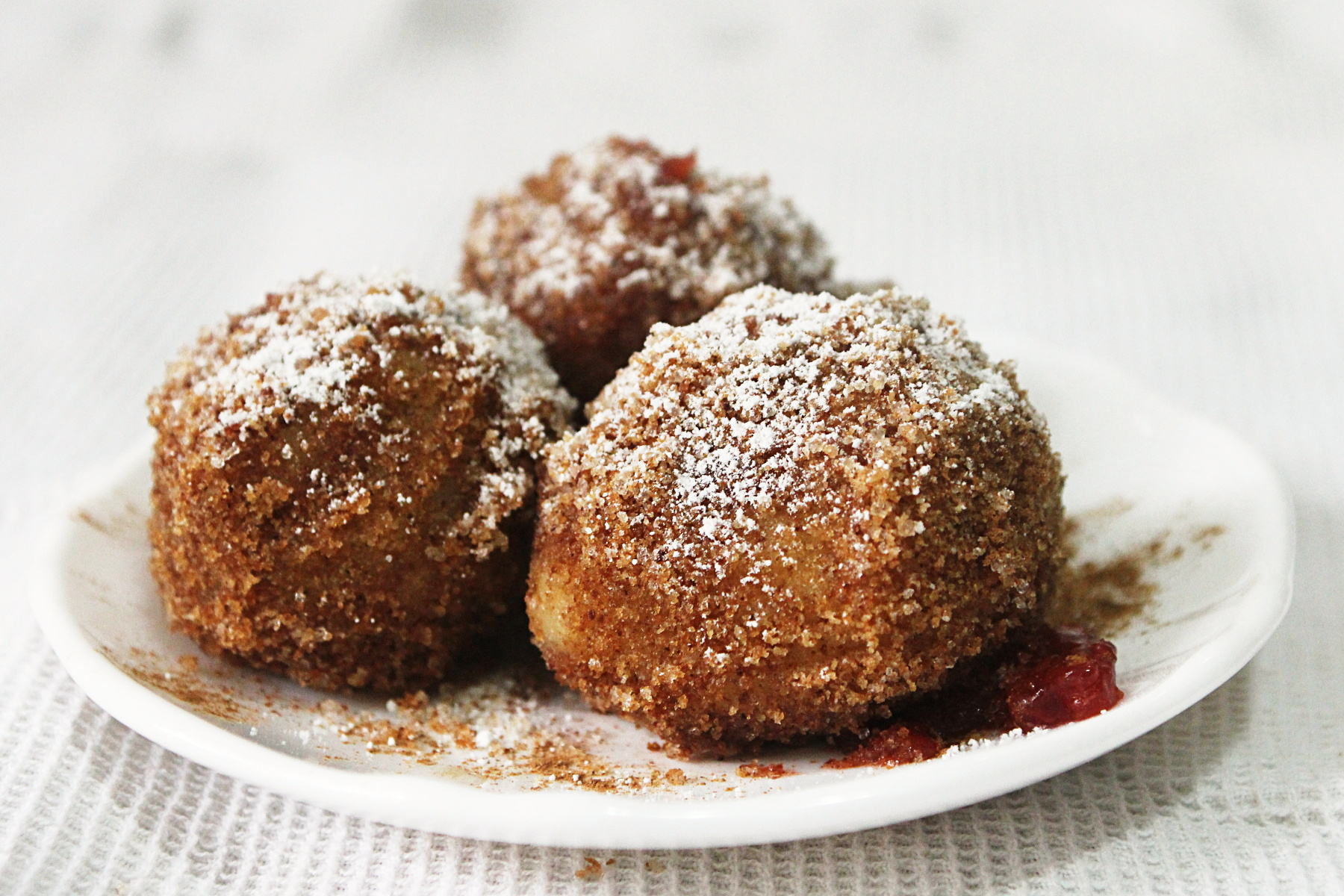 Plum dumplings (gombots) made from a Romanian recipe